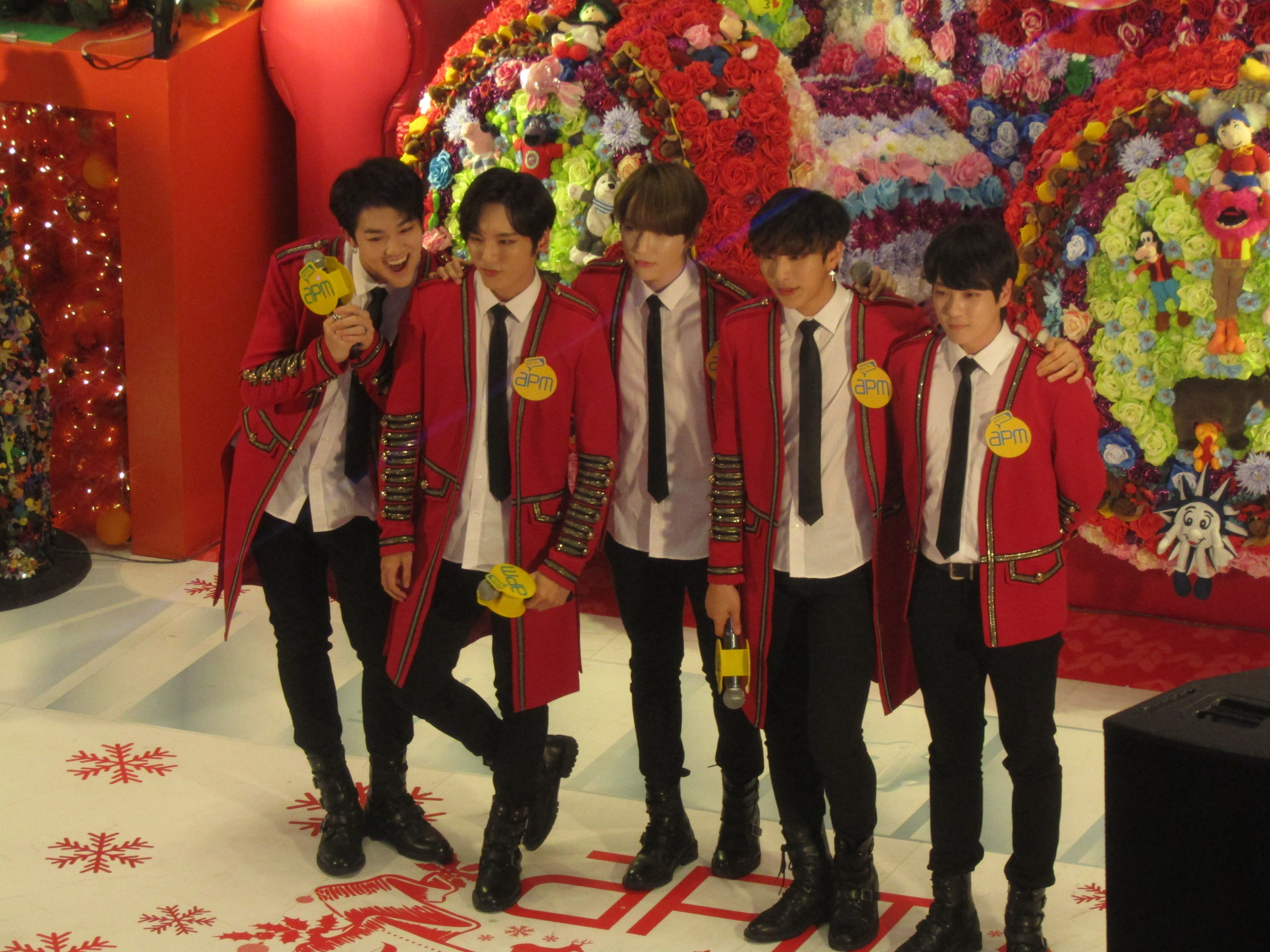 South Korean boy group B.I.G performed at apm, Kwun Tong, HK